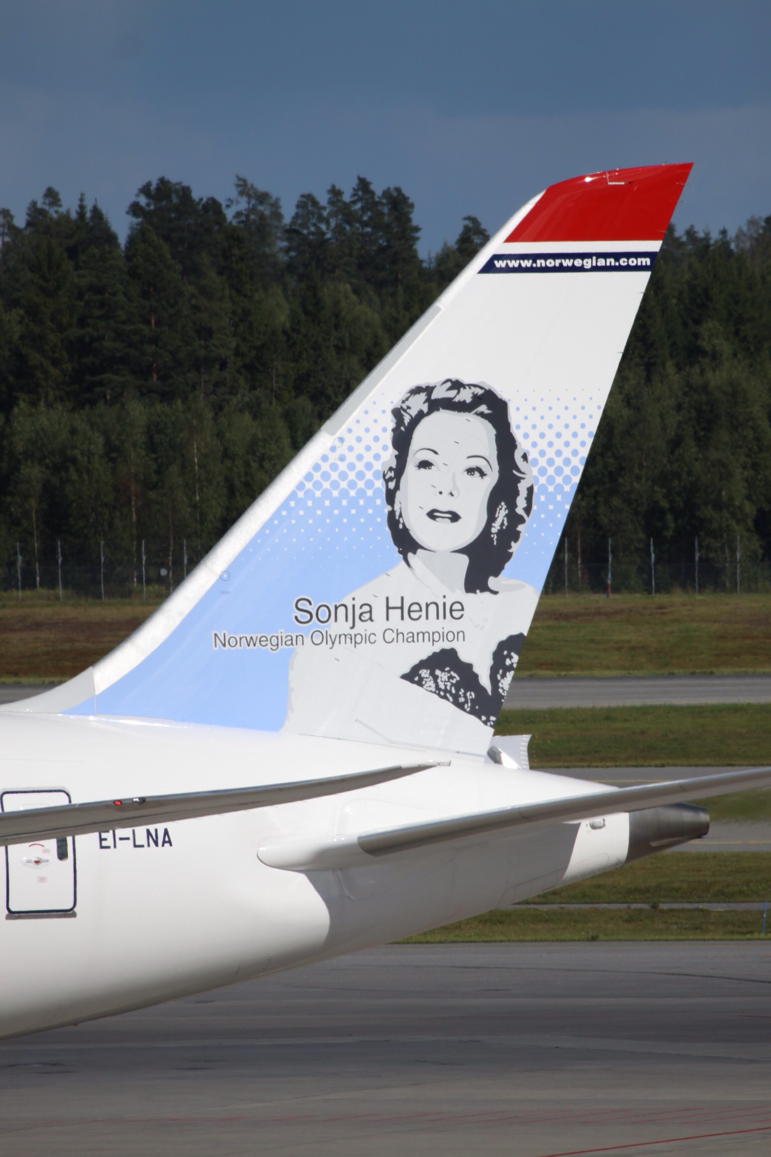 At Oslo Gardermoen